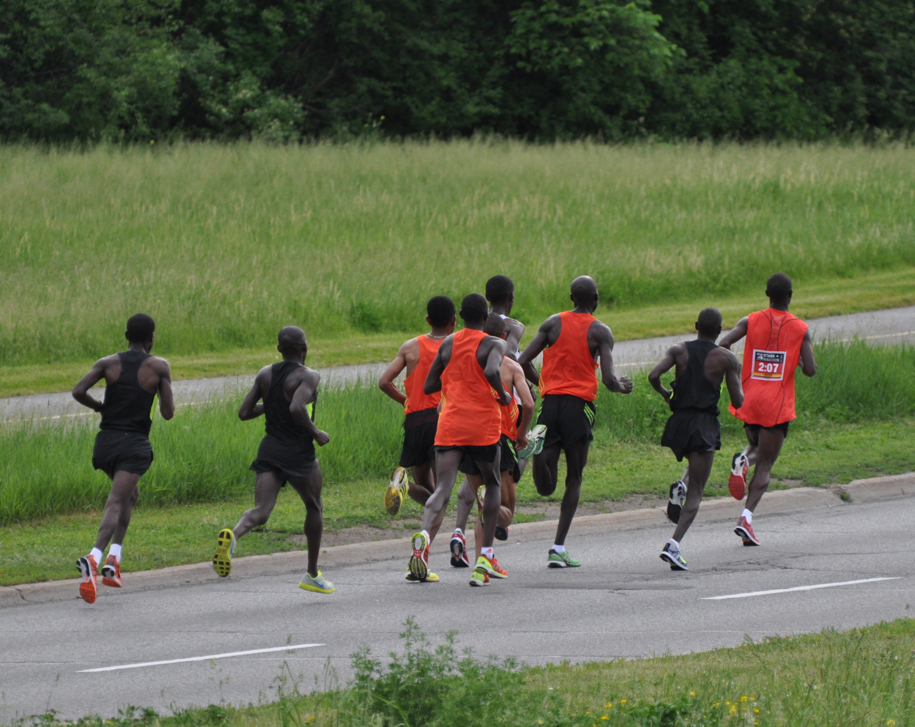 The lead group of the 2012 Ottawa Marathon head east, back toward the downtown district, on the Ottawa River Parkway. Left to right: Negari Terfa, Moses Kigen, Dereje Abera, Daniel Rono, Abdelkrim Boubker, Julius Karinga, Laban Moiben, Vincent Kiplagat, and pacer Anthony Maritim.